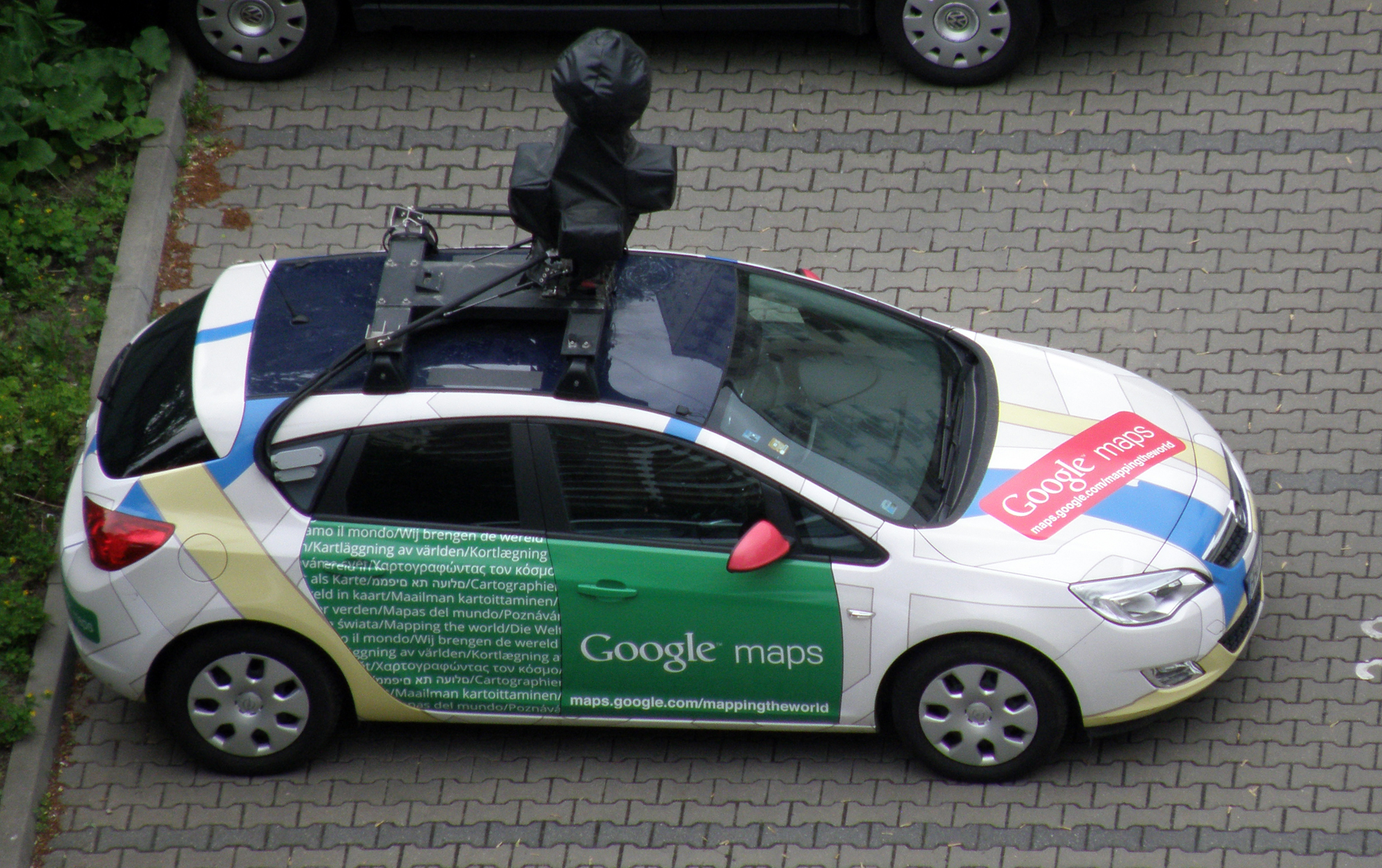 Google Street View camera cars in Warsaw